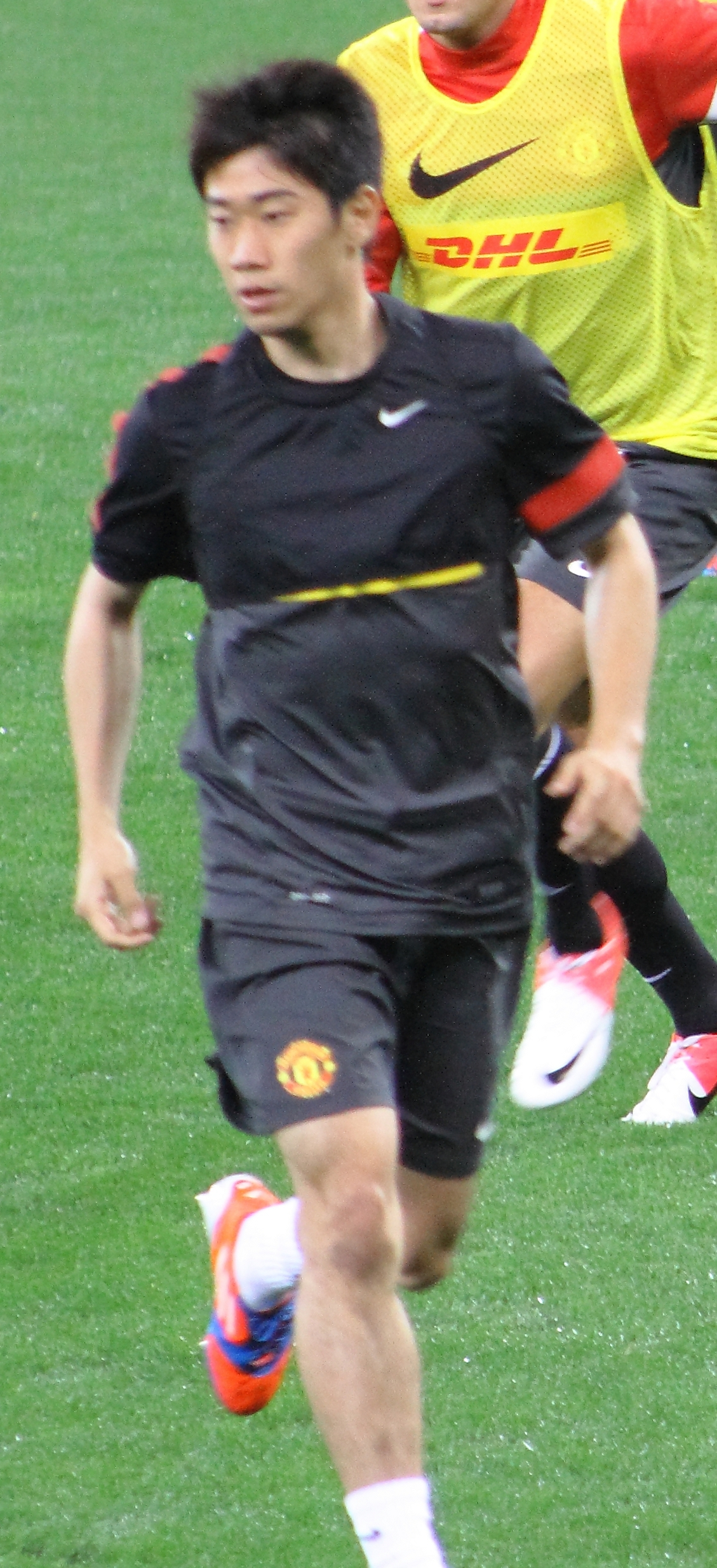 From front to back, Shinji Kagawa, Federico Macheda, Antonio Valencia, Anderson